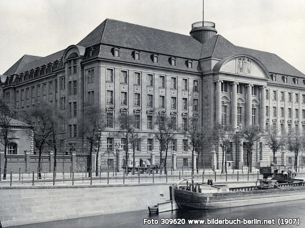 Royal Prussian Railway Administration Berlin 1907